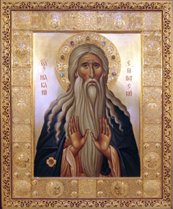 Saint Macarius of Egypt. Venerable Saint Macarius (ca. 300- d. 391, Scetes, Egypt) is one of the most prominent desert Fathers of the Church, known also as Macarius the Great.